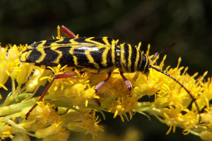 jpeg image, low resolution, cropped copy: Adult Locust Borer Beetle Megacyllene robiniae. Shown with Goldenrod (Solidago sp.)